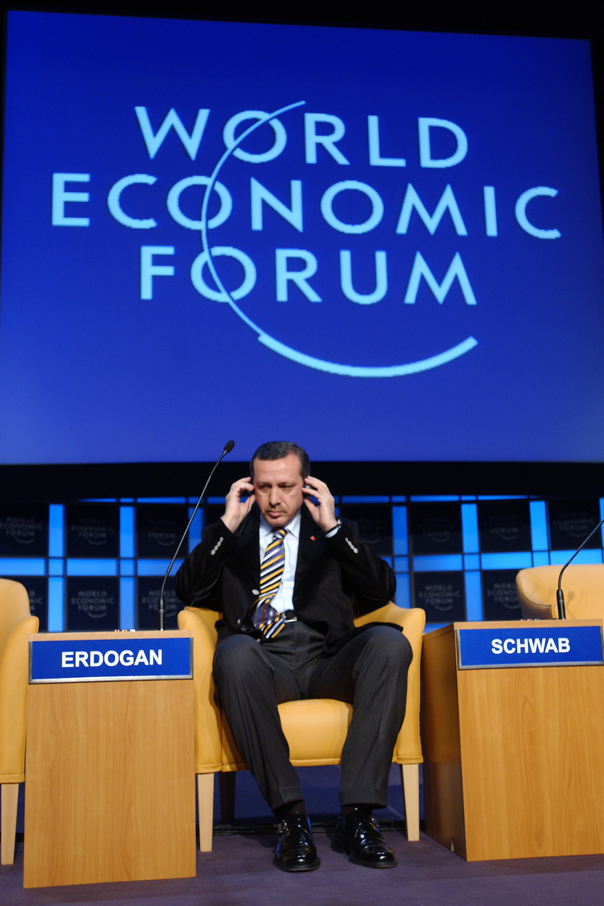 DAVOS/SWITZERLAND, 24JAN04 - Recep Tayyip Erdogan, Prime Minister of Turkey, captured during the session 'Special Address by the Prime Minister of Turkey' at the Annual Meeting 2004 of the World Economic Forum in Davos, Switzerland, January 24, 2004.